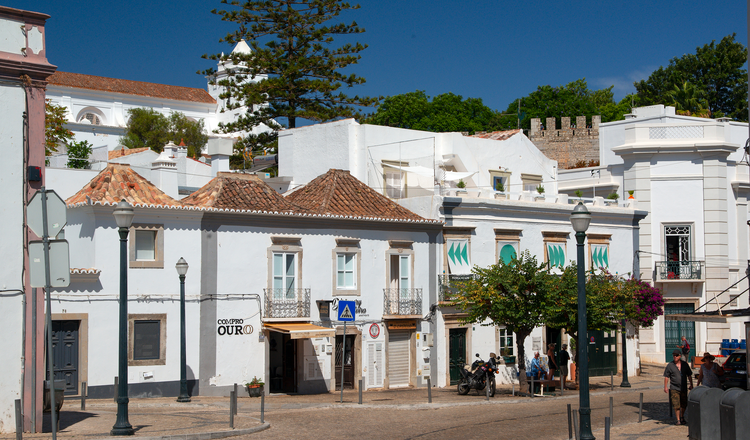 Historic centre of Tavira, in the Algarve, Portugal